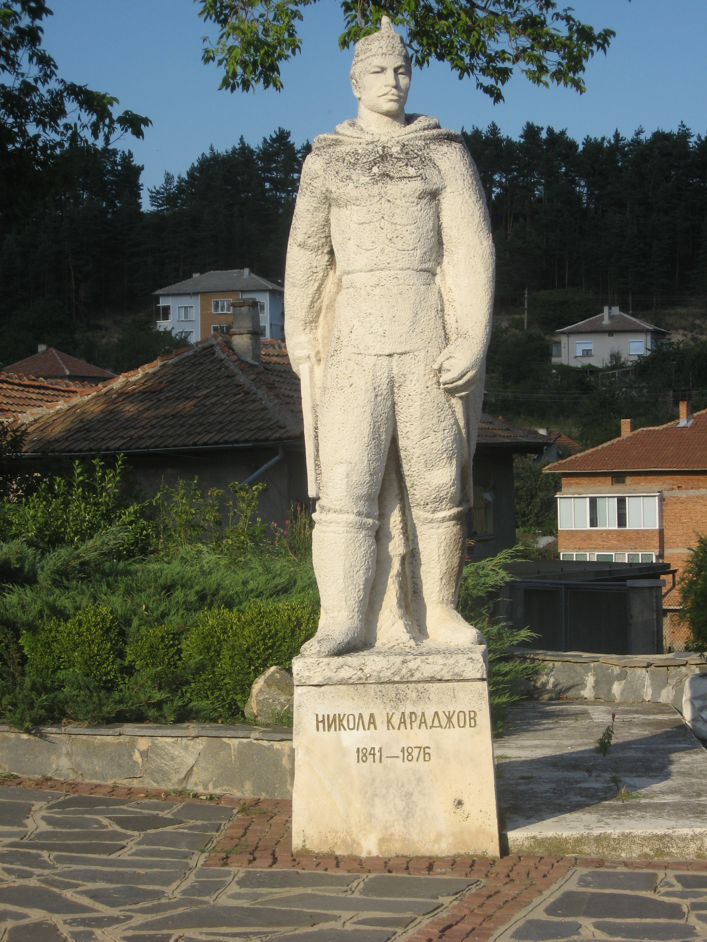 Nikola Karadzhov, Klisura, Bulgaria